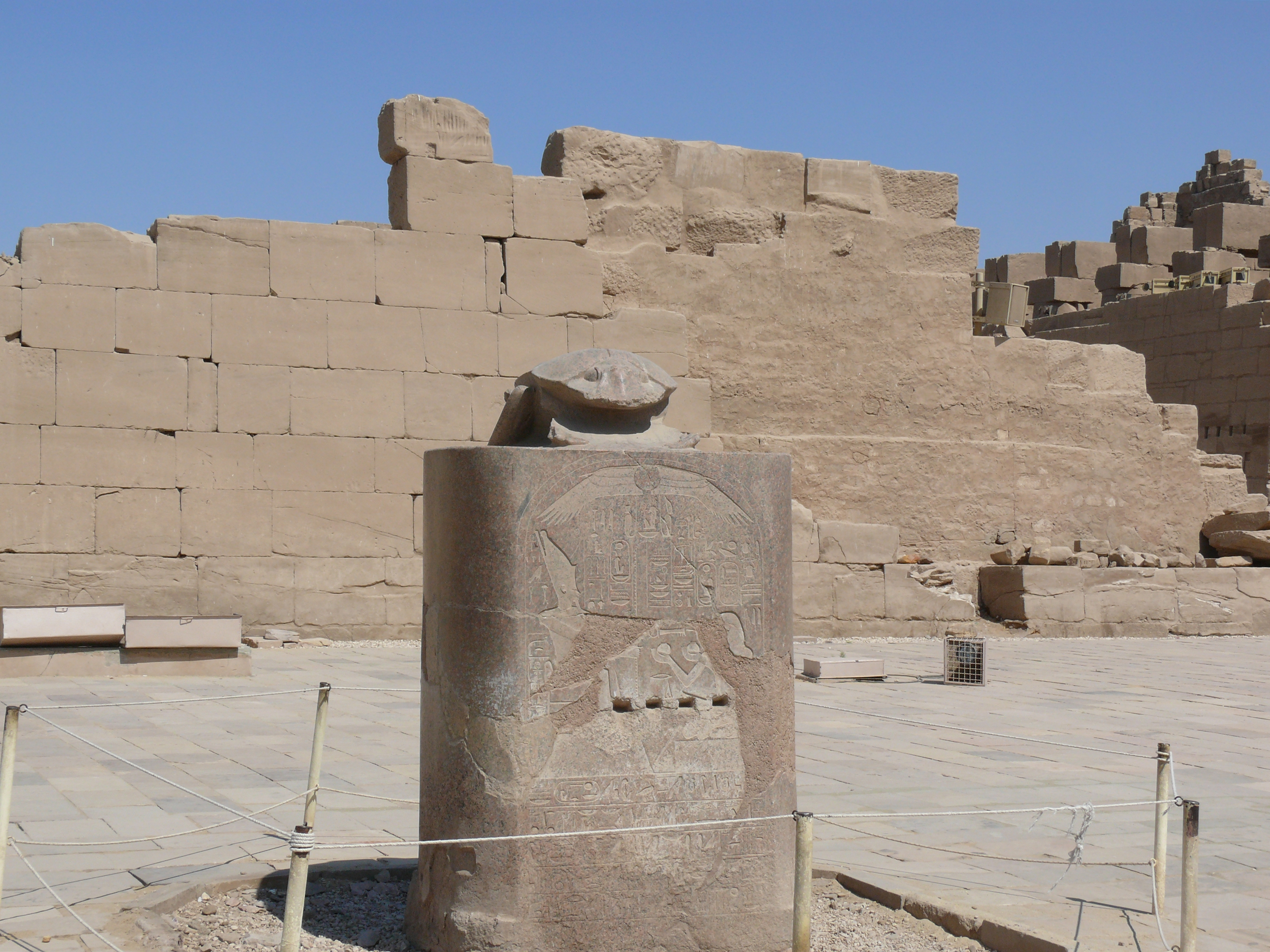 Statue of a scarab dedicated to Khepri by Amenhotep III in the Karnak temple complex.